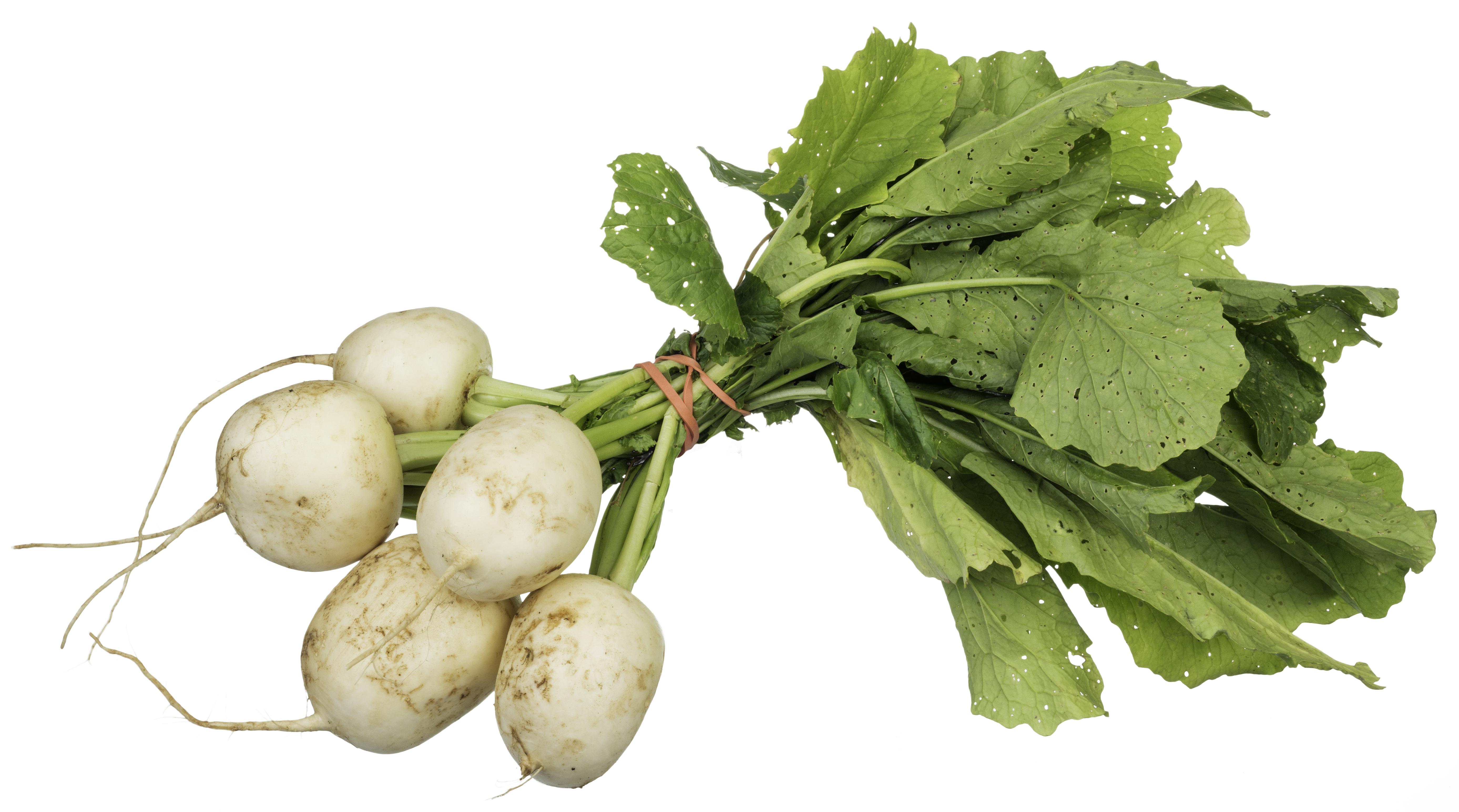 A bundle of Tokyo turnips, from an organic food co-op.